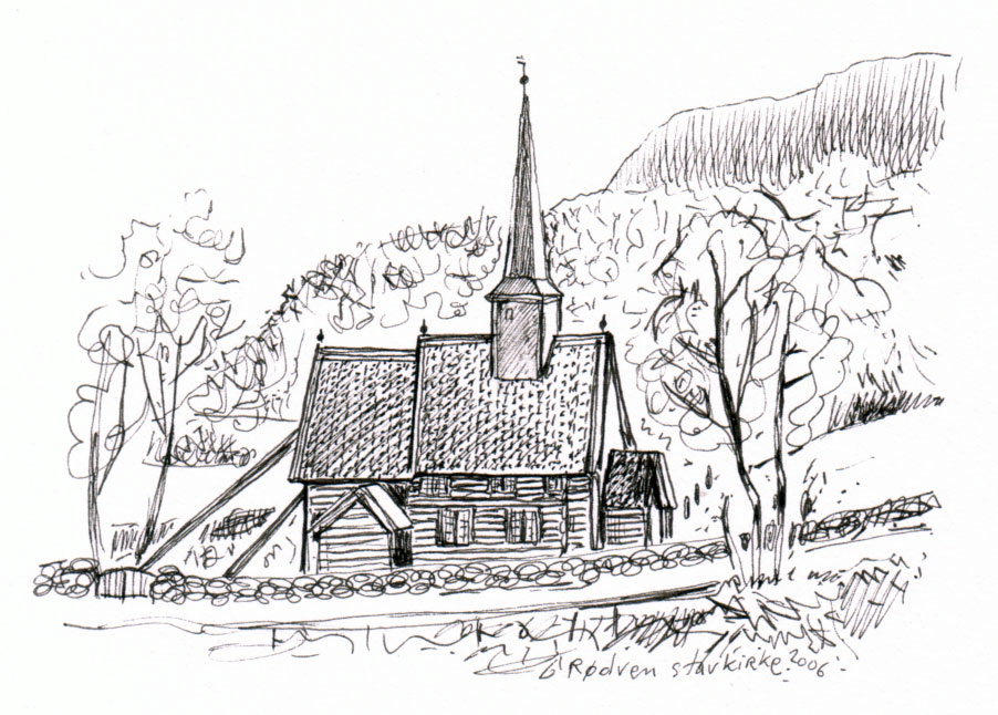 The old church in Rødven, Norway